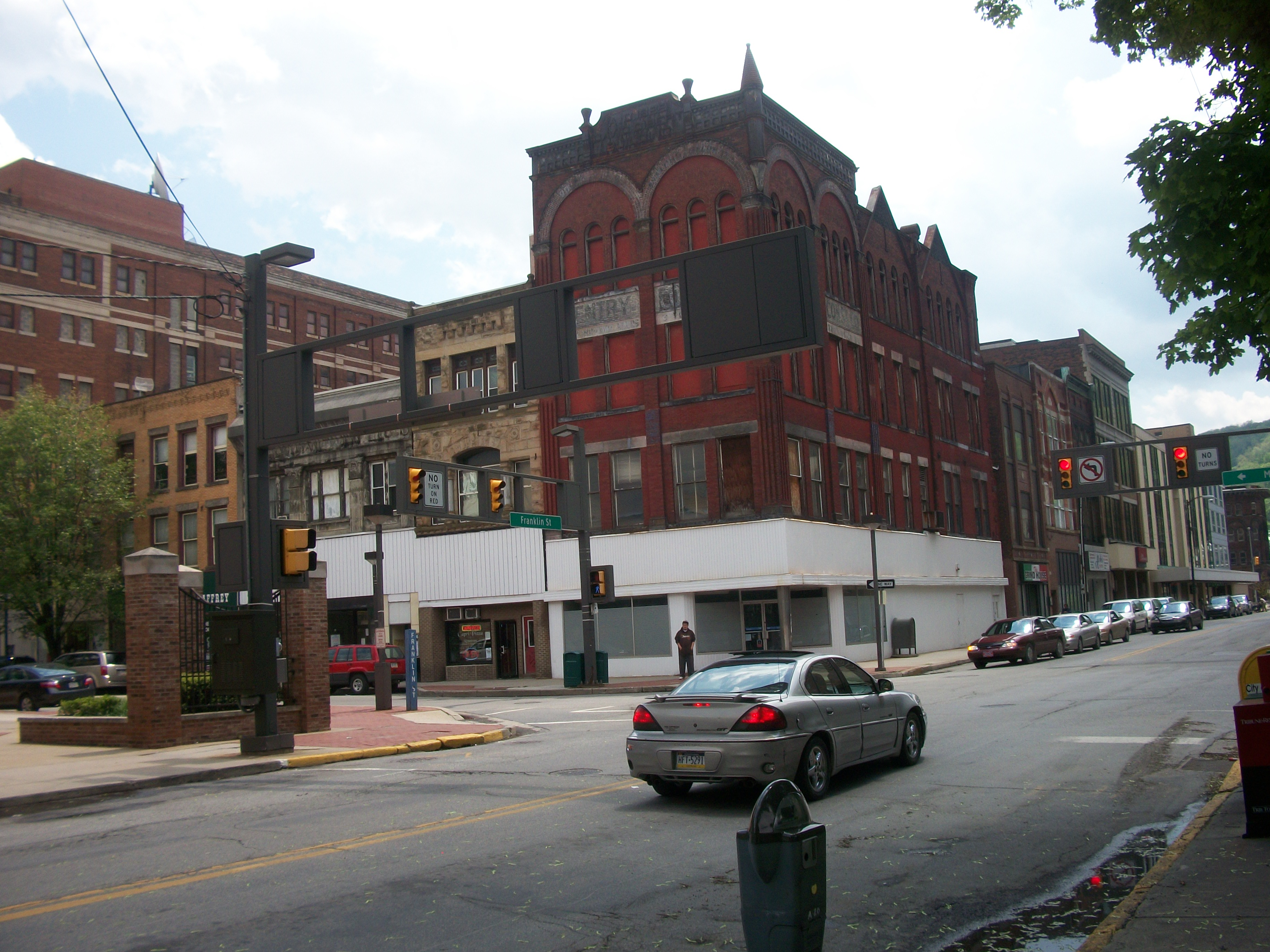 Downtown Johnstown. Taken May 14, 2010.